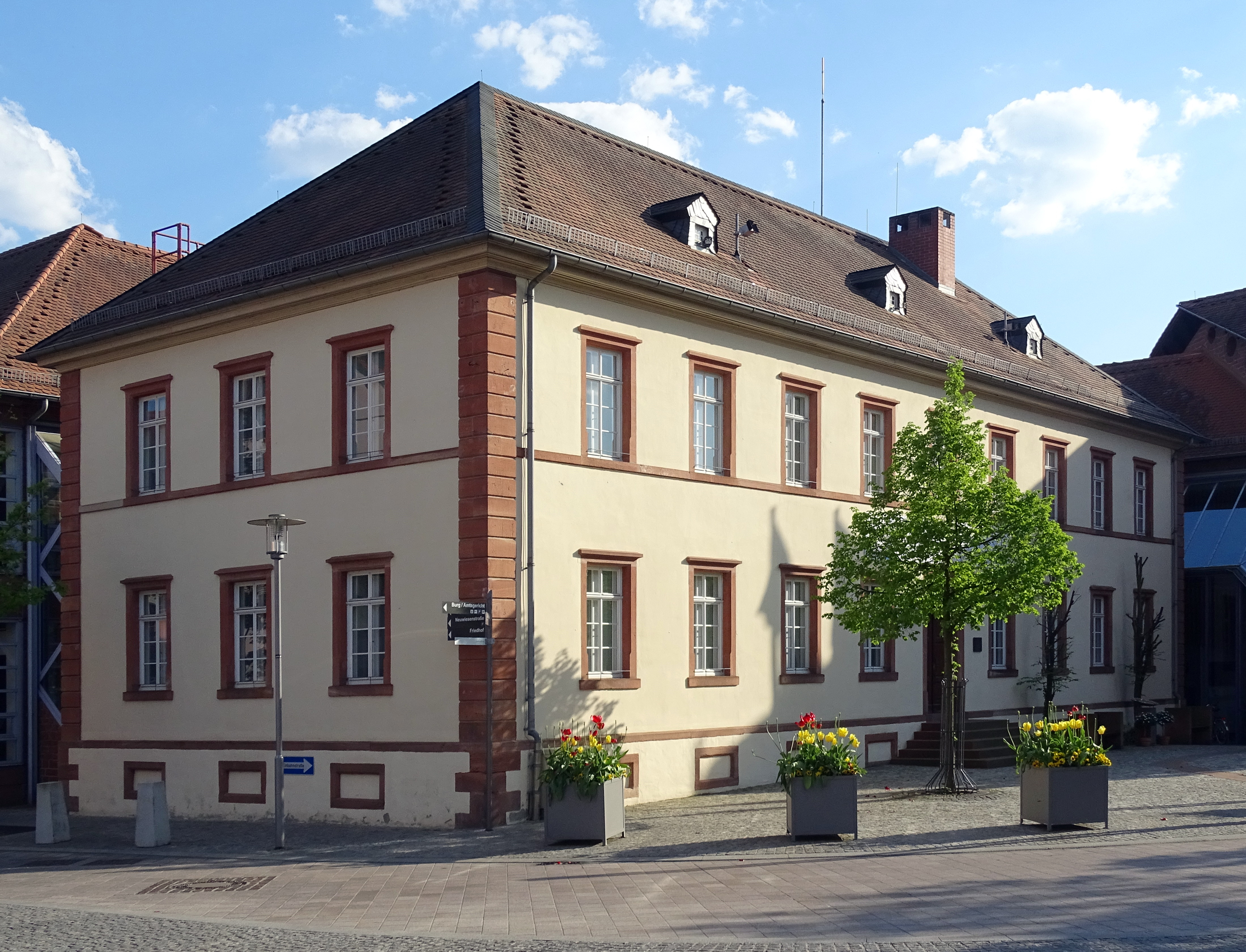 Town hall in Alzenau, Hanauer Straße 1